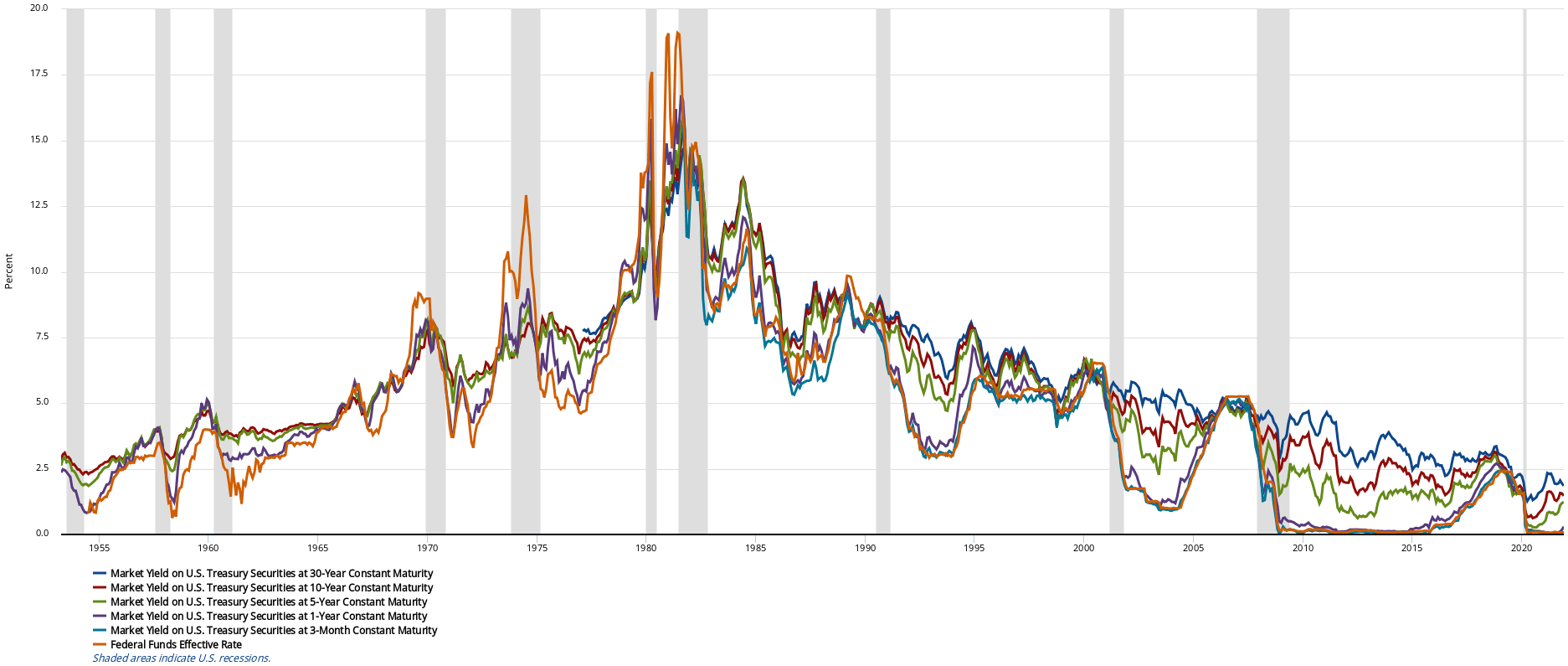 United States Treasuries history compared to the Federal Funds Rate